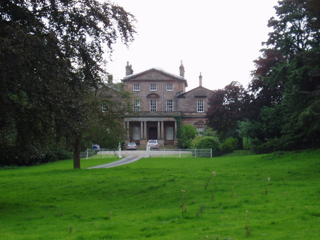 A Palladian villa, built 1758-63, near the village of Sicklinghall, North Yorkshire